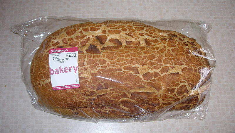 A loaf of tiger bread. Photograph taken by Scalytail on Saturday August 12th 2006.